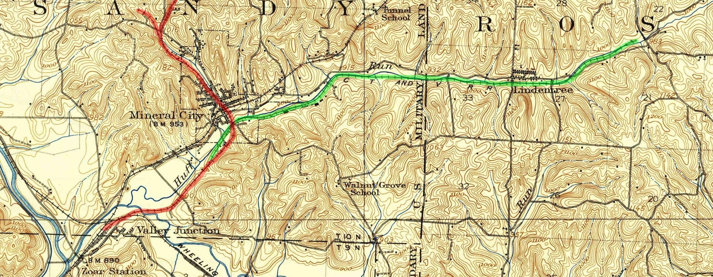 Map of the Cleveland, Terminal and Valley Railway (formerly the Valley Railway) in Tuscarawas County, Ohio, in the United States in 1912. The map shows the main line of the railway (highlighted in red), with the Huff Run Branch (highlighted in green).